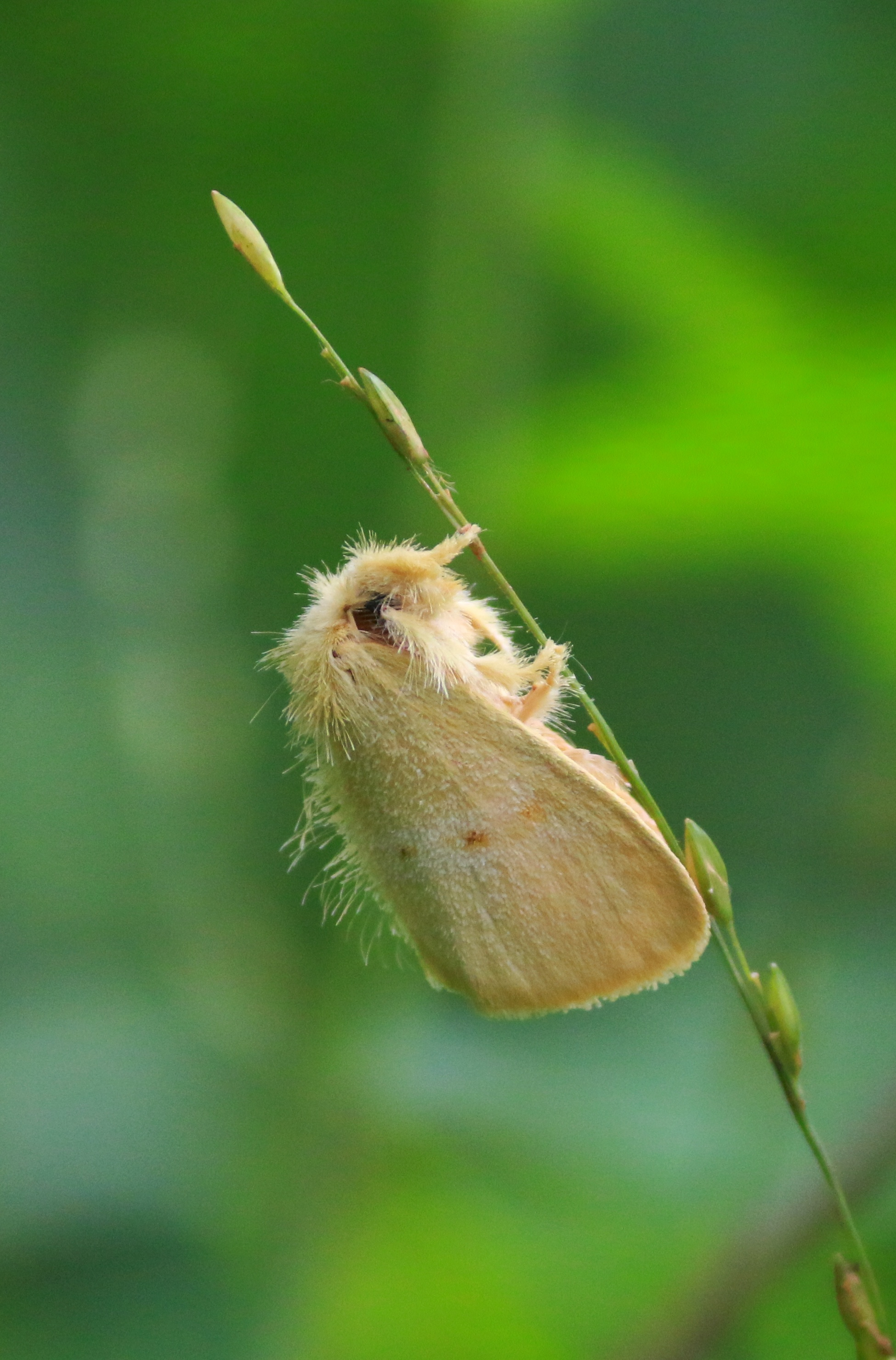 tussock moth